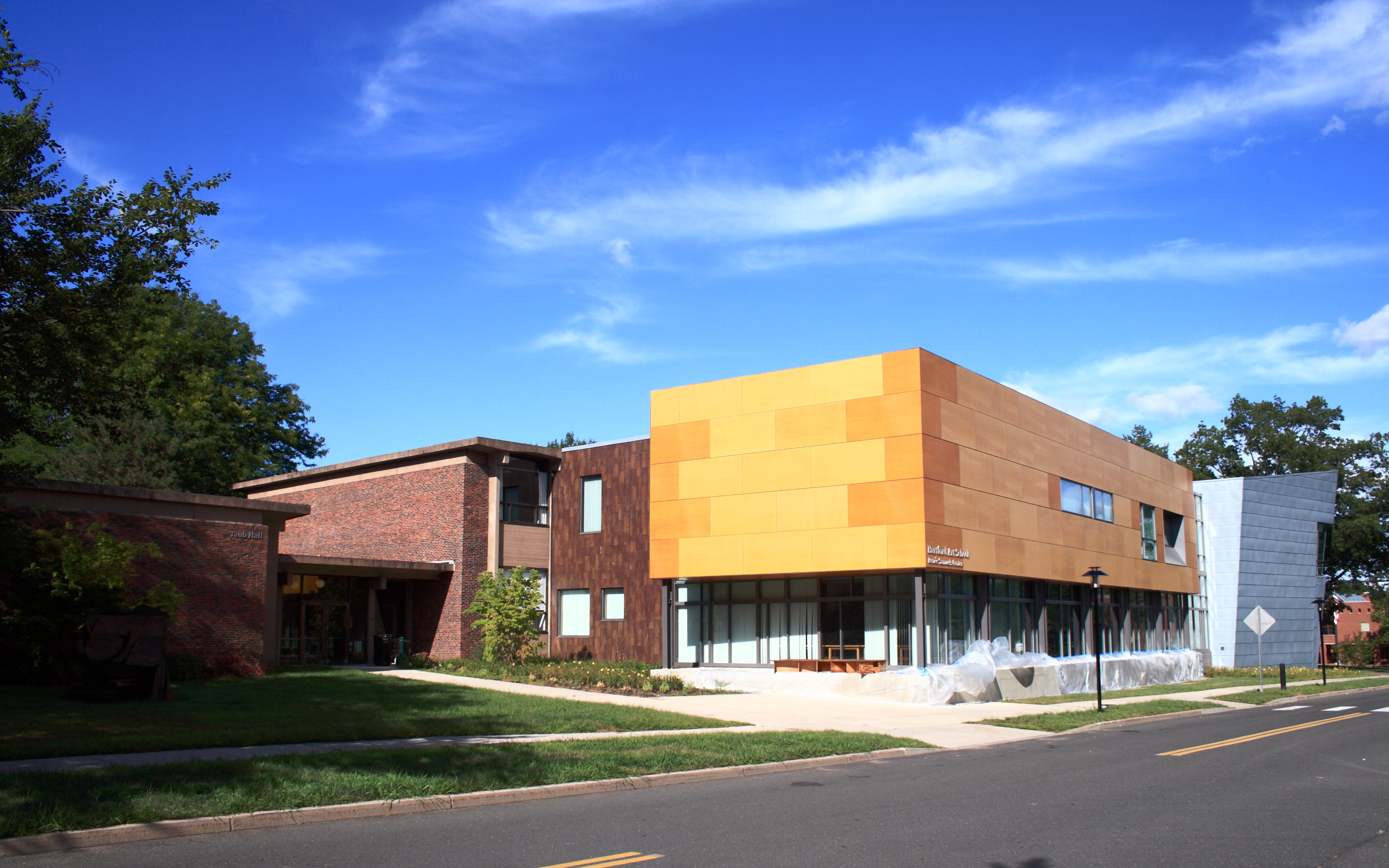 The Visual Arts Complex of the Hartford Art School: Taub Hall and the Renée Samuels Center